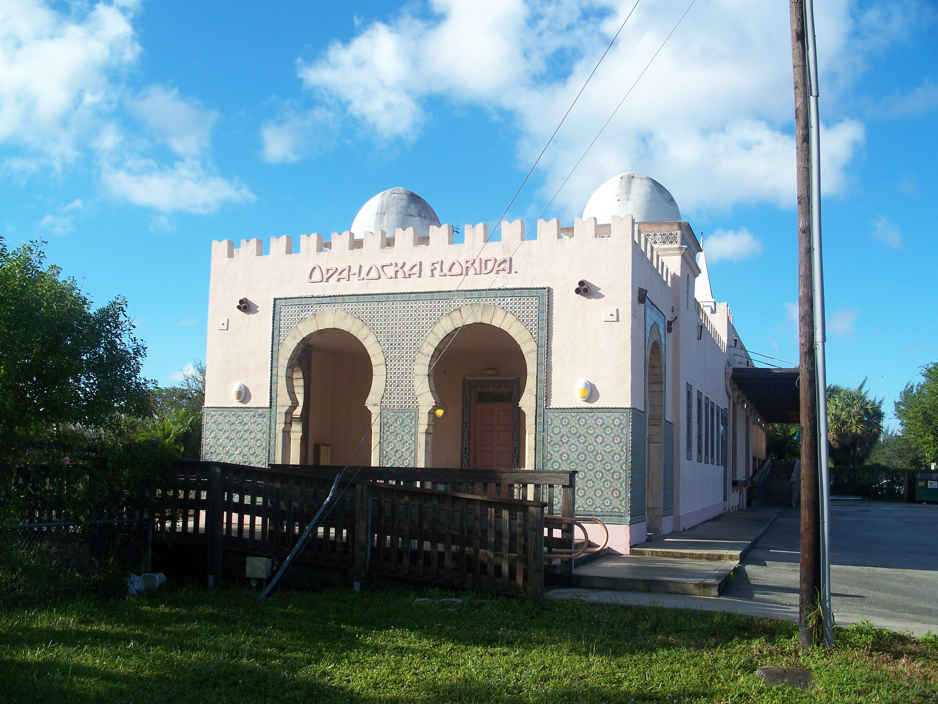 North view of the former Opa-Locka Railroad Station built by the Seaboard Air Line Railroad in Opa-locka, Florida.